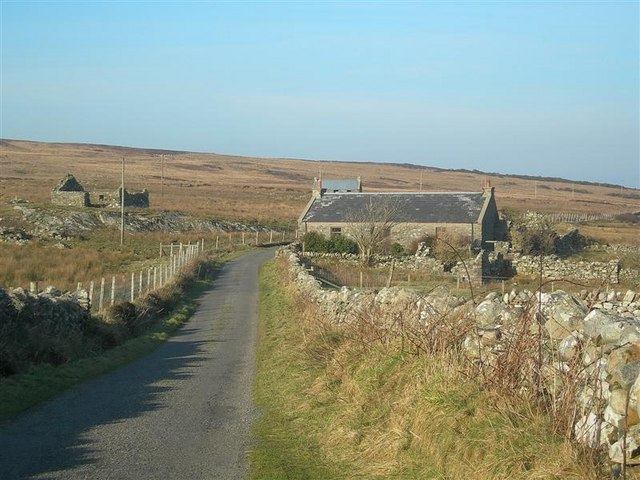 Leckgruinart Cottage On the road to Ardnave.